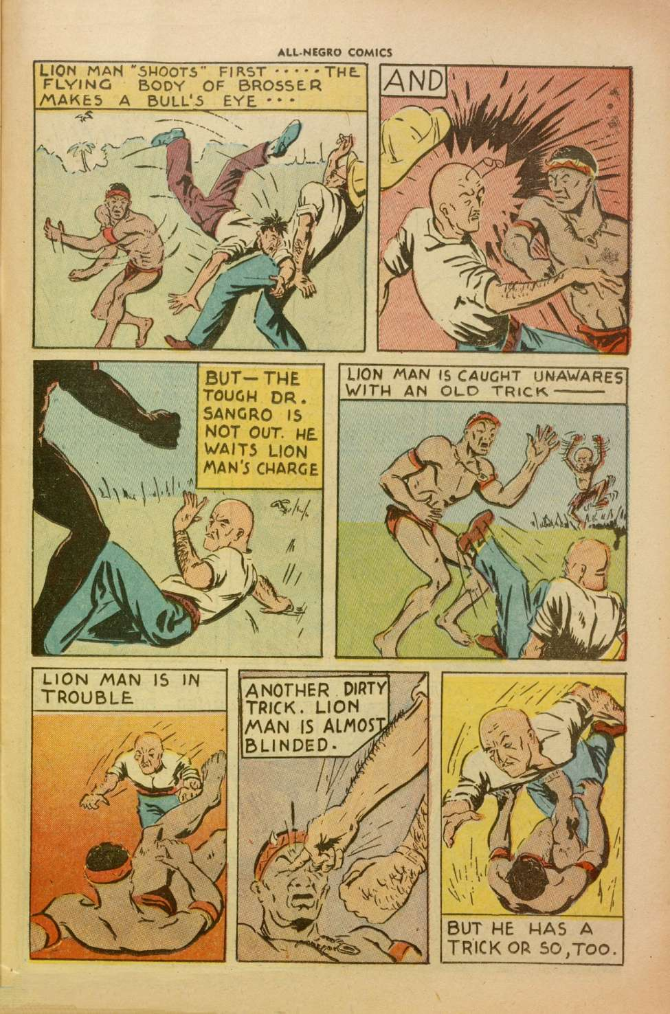 "Lion Man" page from All-Negro Comics #1 (1947). Defunct publisher.